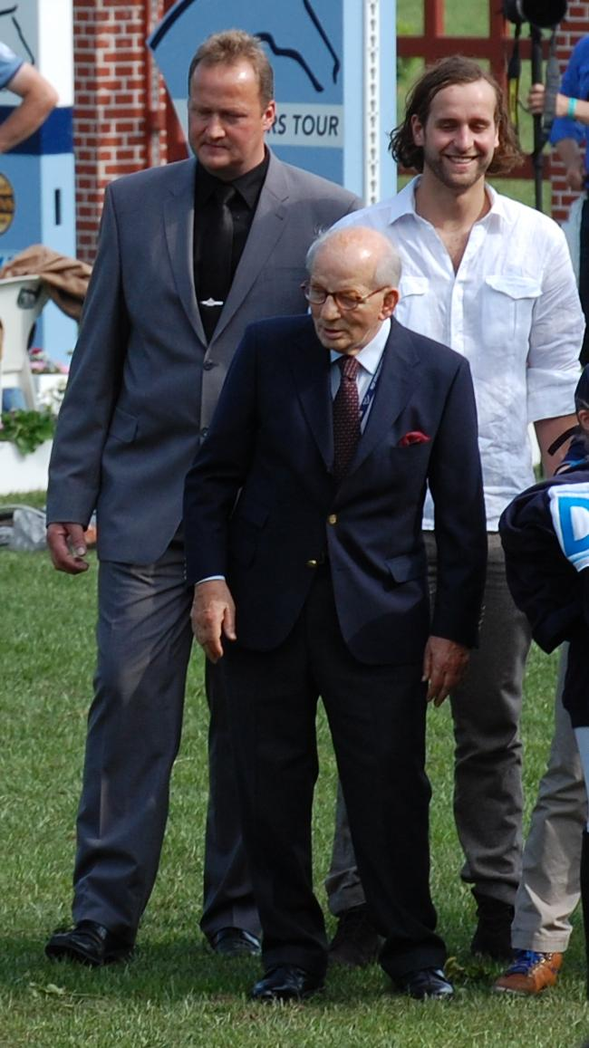 Hans Günter Winkler and team handball keeper Silvio Heinevetter at the 2012 German show jumping and dressage derby in Hamburg.